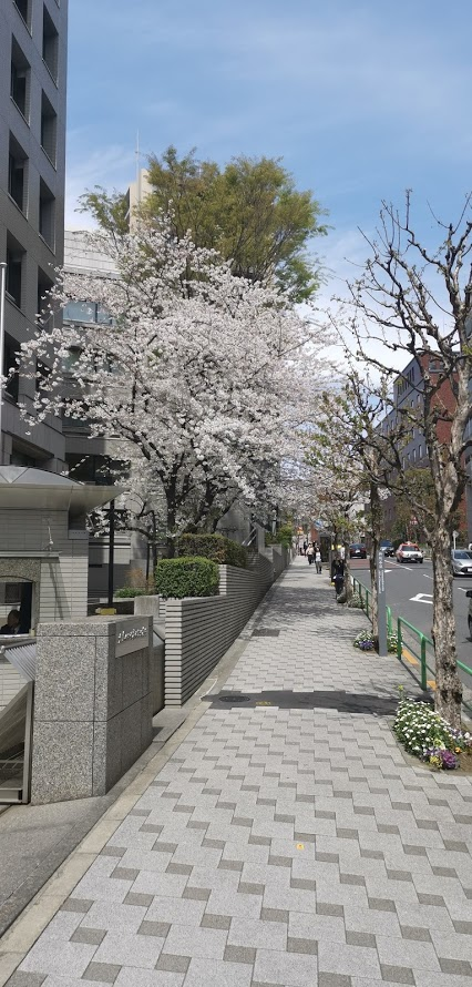 Entrance of Otsuma Gakuin University on Onmayadani Saka